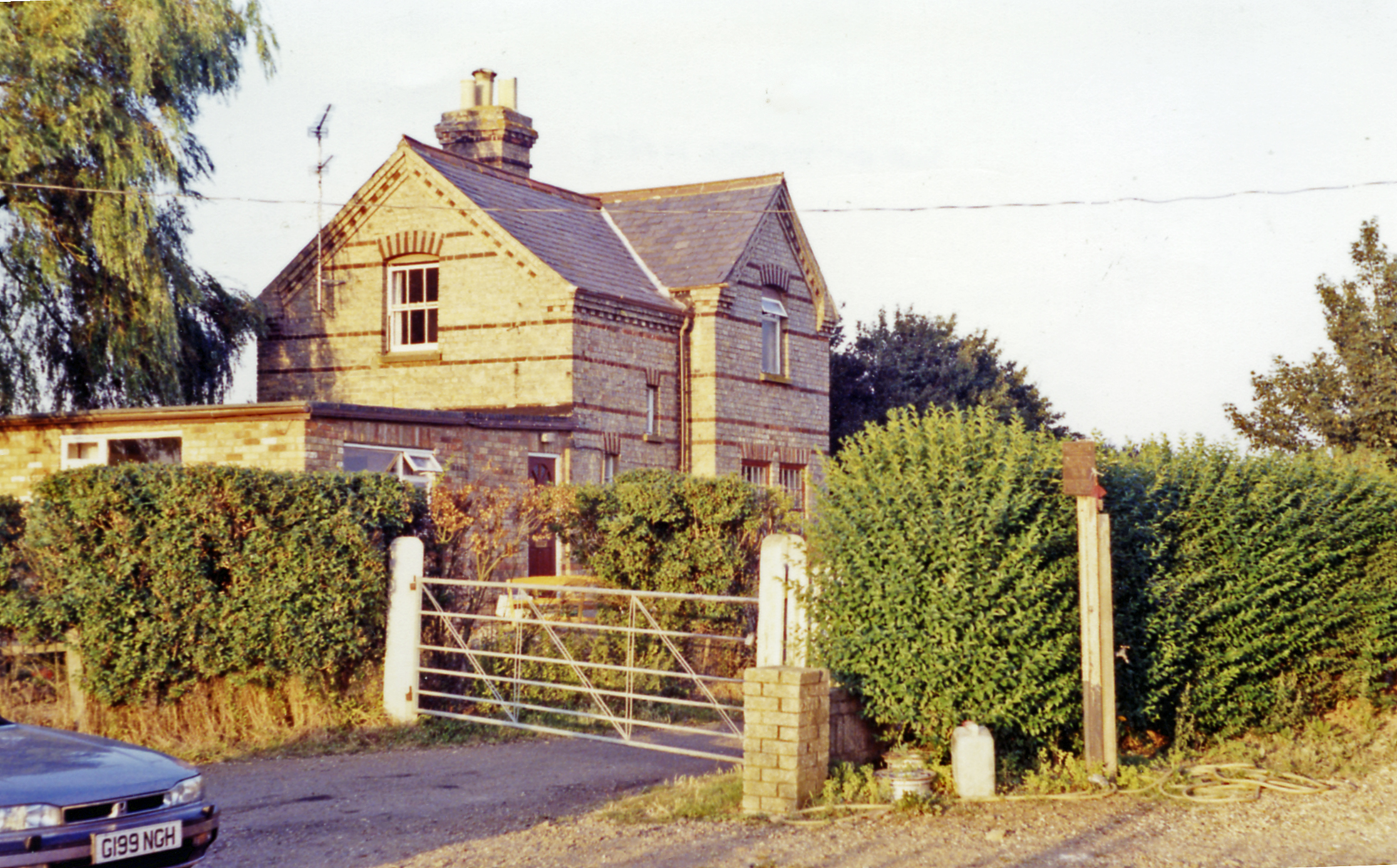 Abbey & West Dereham station (remains). View eastward, towards Stoke Ferry: ex-GER Denver - Stoke Ferry branch. The station and branch lost their passenger service from 22/9/30, but goods continued on the branch until 19/4/65 - to Abbey until 31/1/6